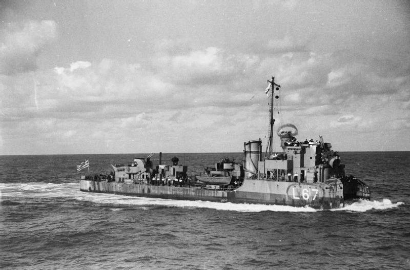 The Greek Navy during the Second World War The Greek destroyer HHMS ADRIAS, minus her bows which had been blown off by a mine in the Aegean, heading towards Alexandria. She came in under her own steam at a speed of three knots having travelled in this condition for over 500 miles.